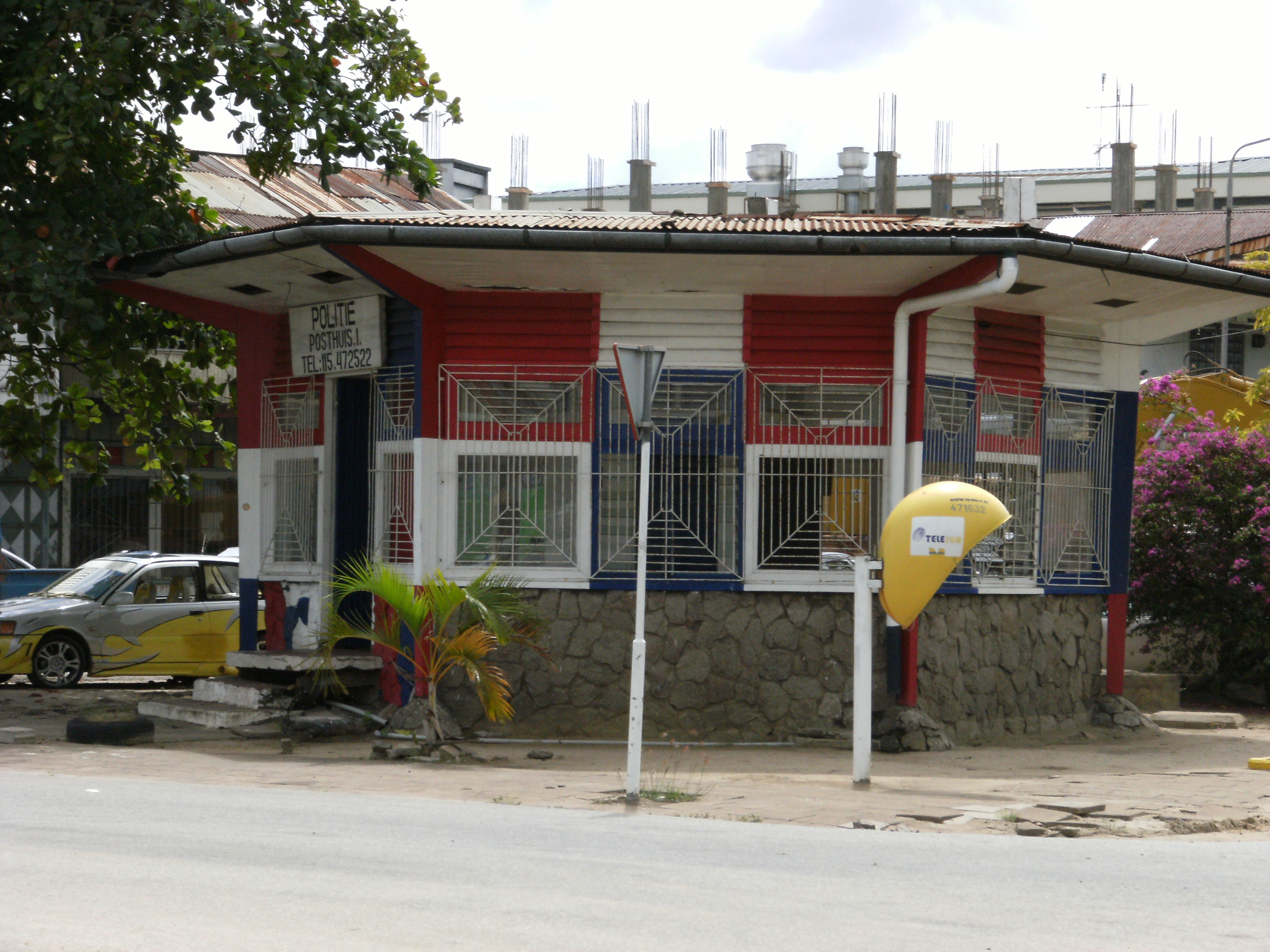 Police post in Paramaribo.